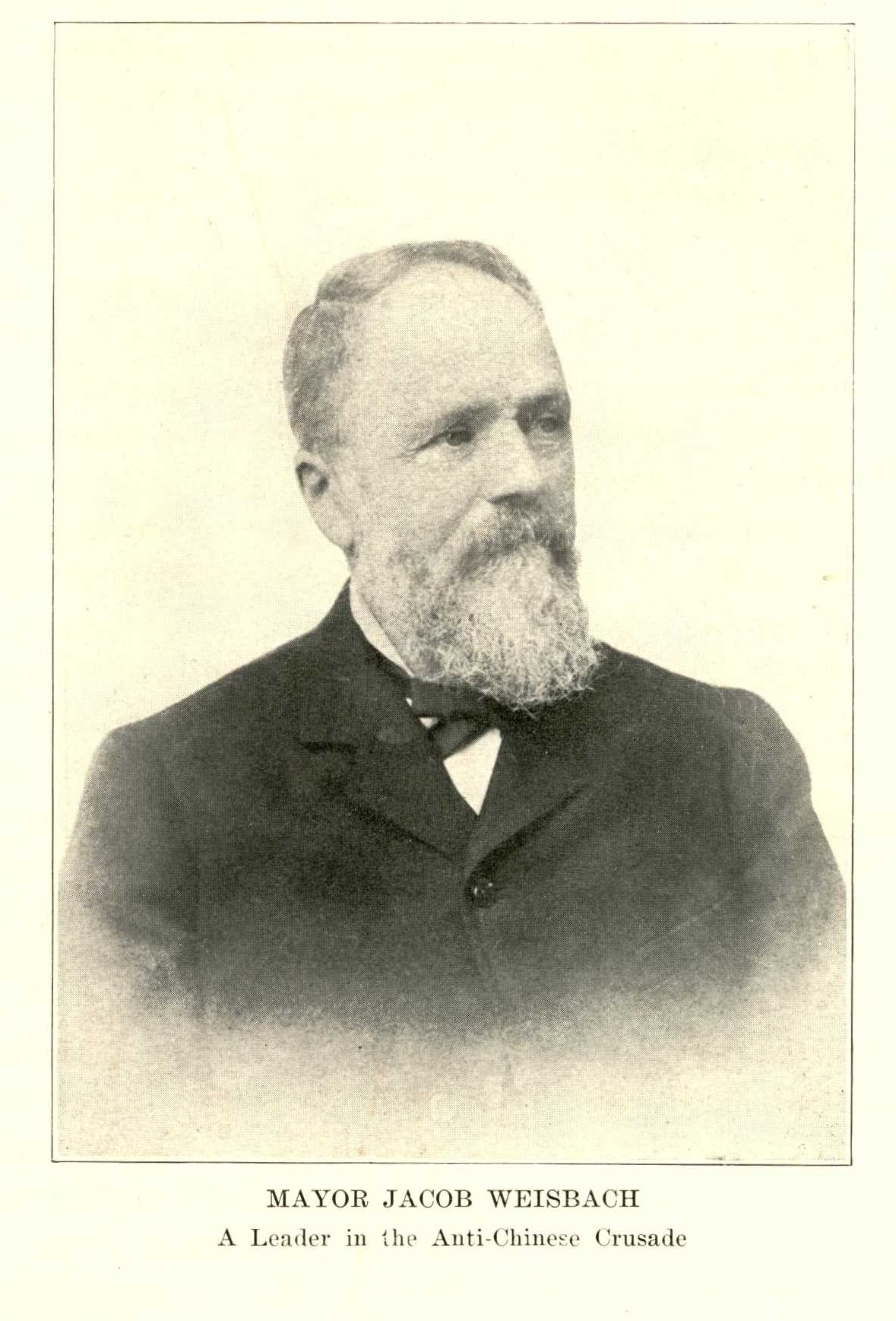 A picture of the former Mayor of Tacoma.